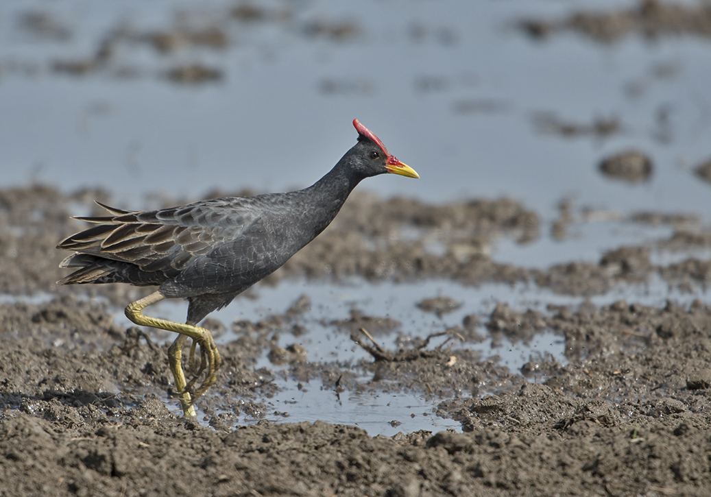 The only member of the Genus Gallicrex, is a shy resident of marshy areas on South Asia.